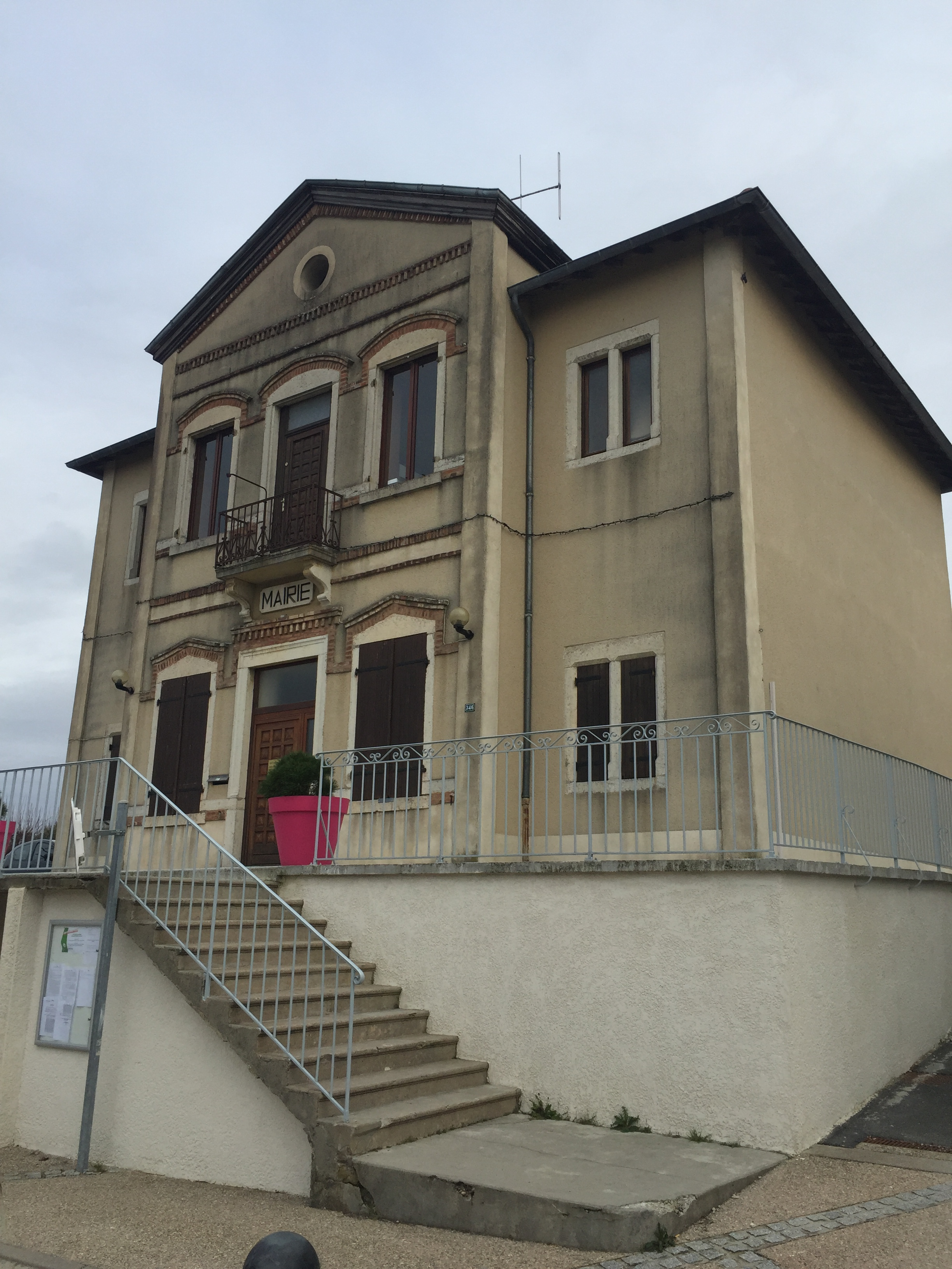 This photograph was taken with an iPhone 6